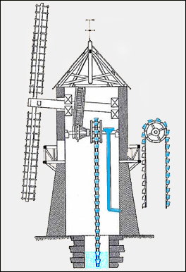 Machine of Marly. Detail of a windmill with jars.